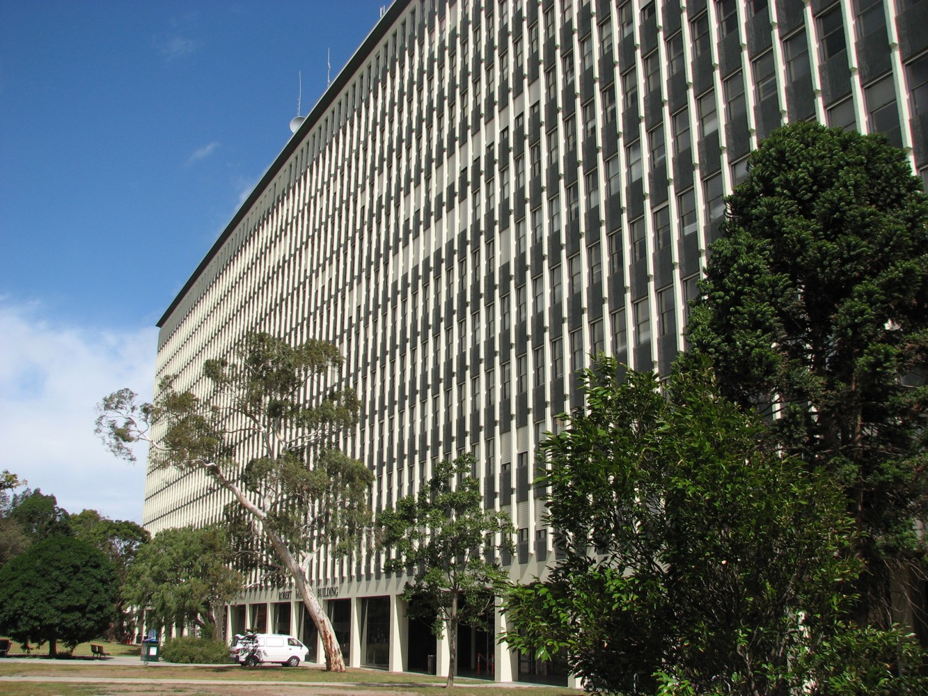 Robert Menzies Building at Monash University, Clayton, Victoria, Australia